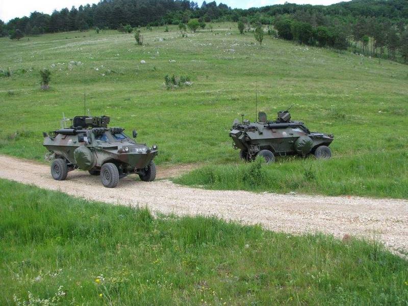 Slovenian Otokar Cobras